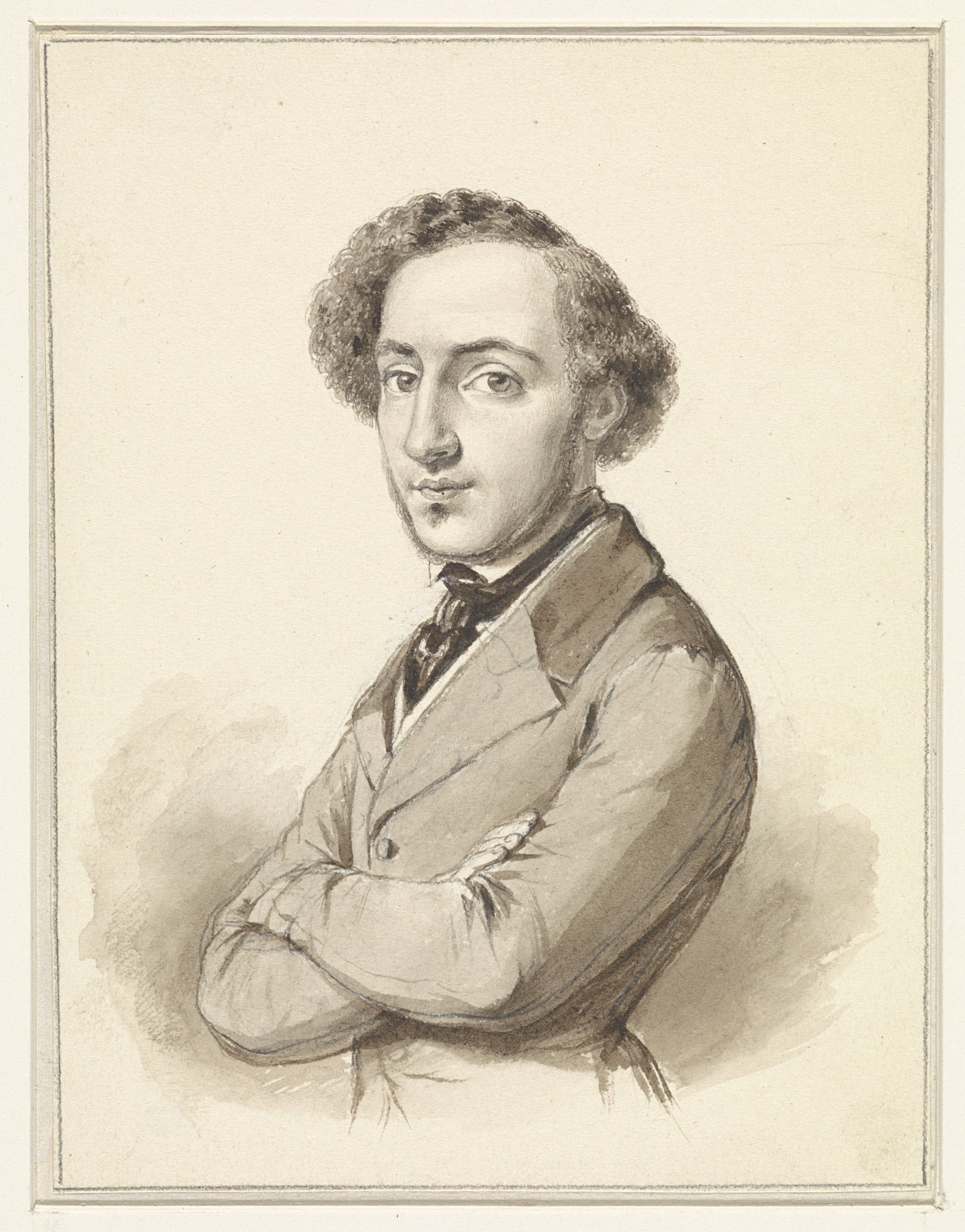 Selfportrait Moritz Calisch (1819-1870)